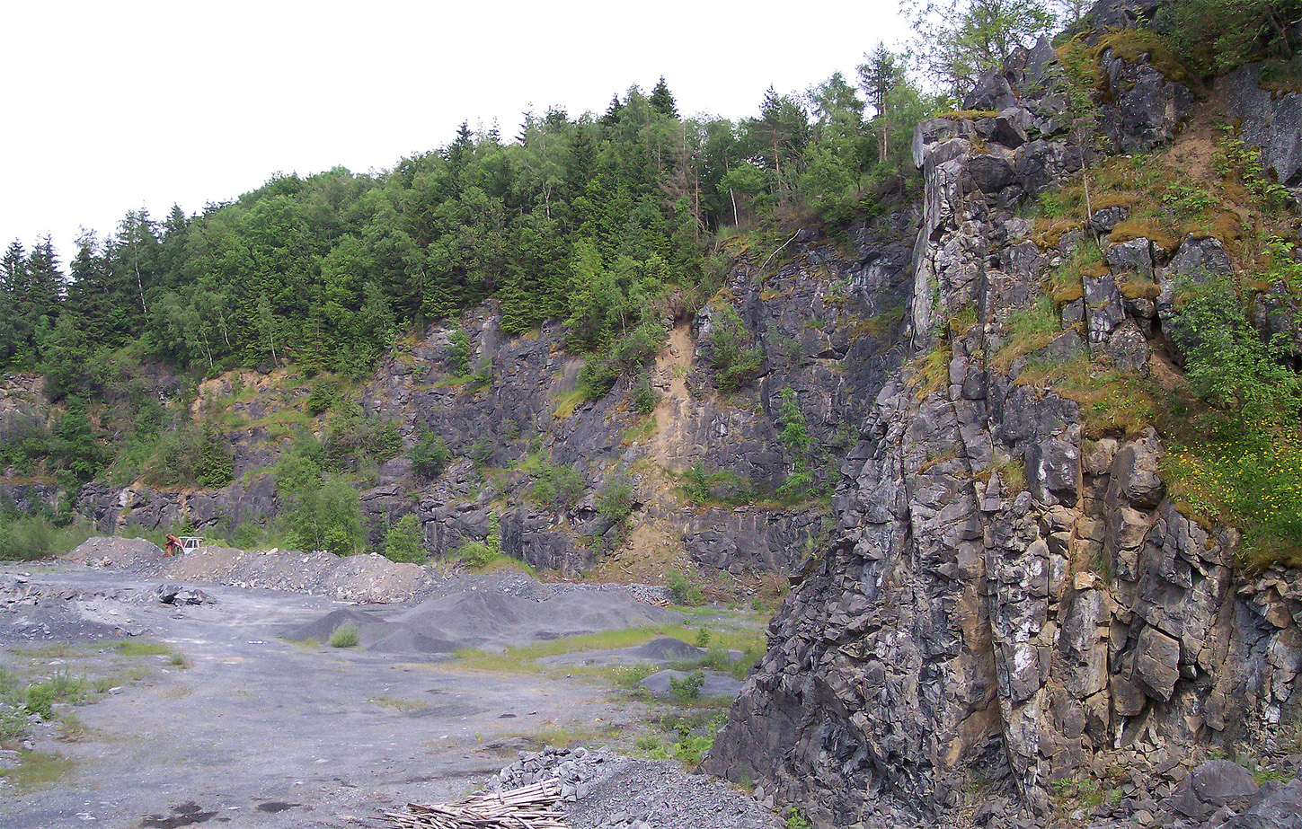 Quarry of the Bayerische Weißkalkwerke Döbra-Poppengrün, situated within a huge olistholith of carbonaceous limestone ("Kohlenkalk") of the most proximal flysch facies of the lower carboniferous succession of the Thuringian-Franconian-Vogtlandian Slate Mountains (Lower Carboniferous of the "Bavarian facies", Döbra-Poppengrün, Northern Bavaria (Franconia), Germany).